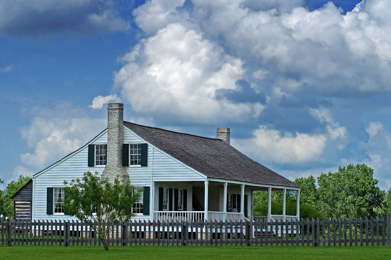 Washington On The Brazos State Park - Home of Anson Jones, last President of the Republic of Texas - Barrington Living History Farm, Washington, Texas